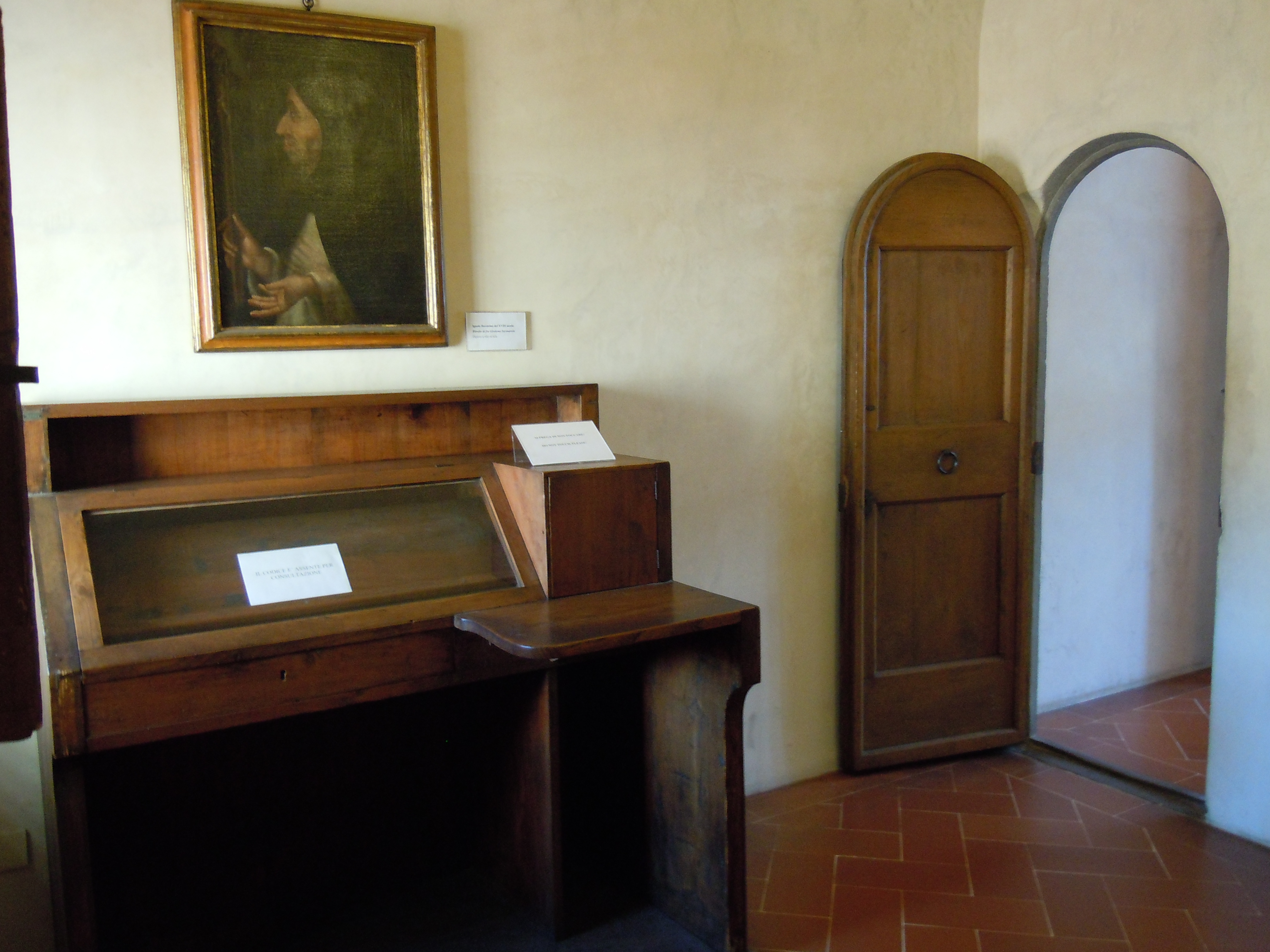 Savonarola's cell in San Marco, Florence, Italy.